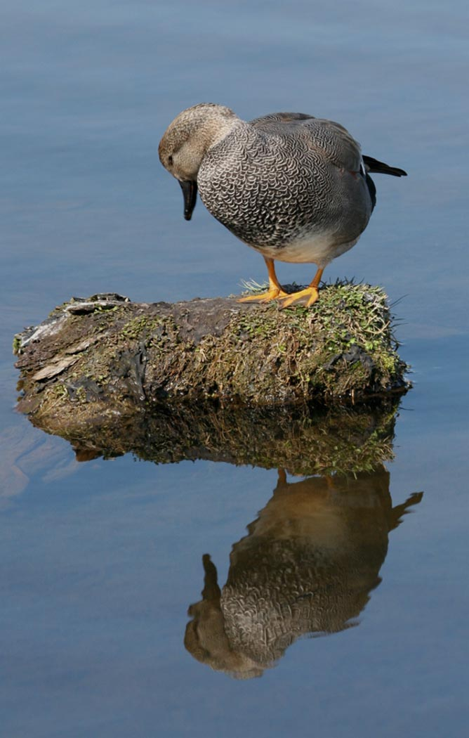 Gadwall Drake (Anas strepera). This image was taken at the Anchorage Coastal Wildlife Refuge, Potter's Marsh, Anchorage, Alaska.